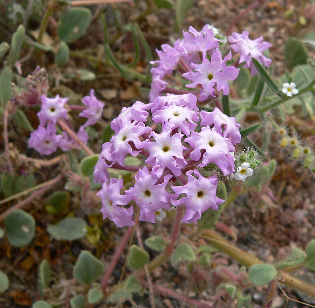 Abronia villosa two miles east of Jubilee Pass, Death Valley National Park